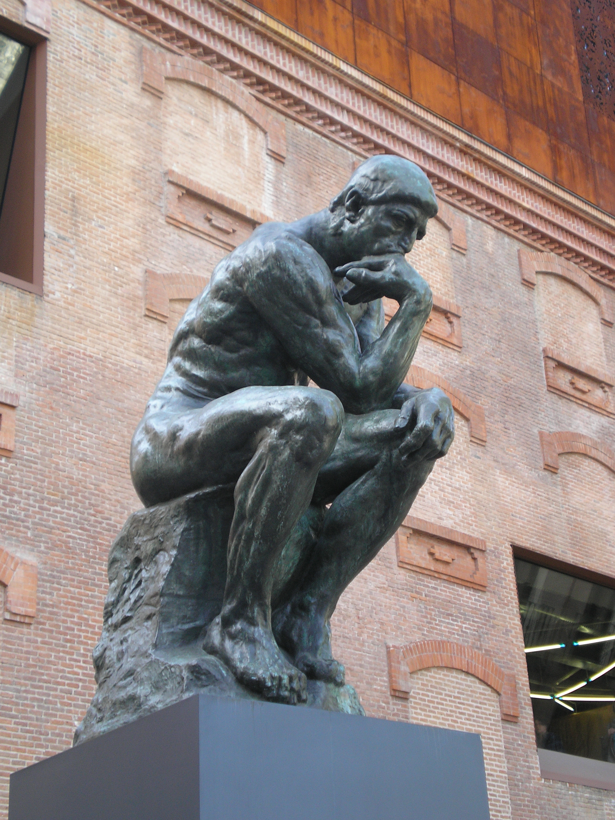 The thinker, sculpture by Auguste Rodin, in Madrid.